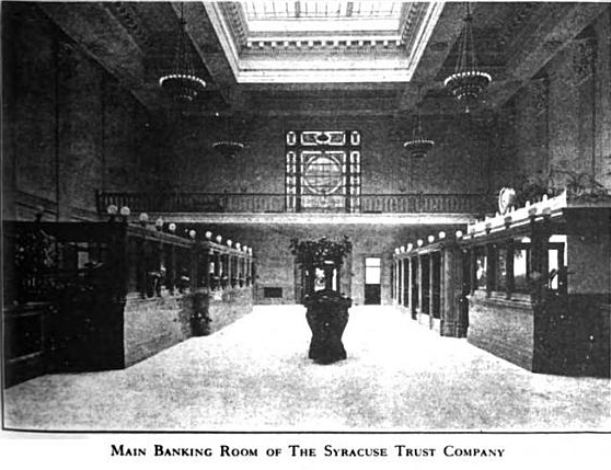 Syracuse Trust Company, interior (1913) — in Syracuse, New York.